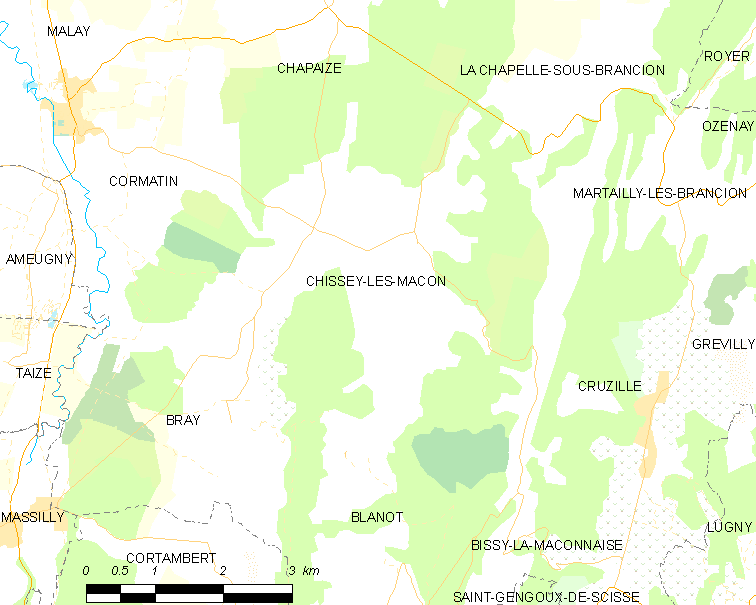 Map of French municipality